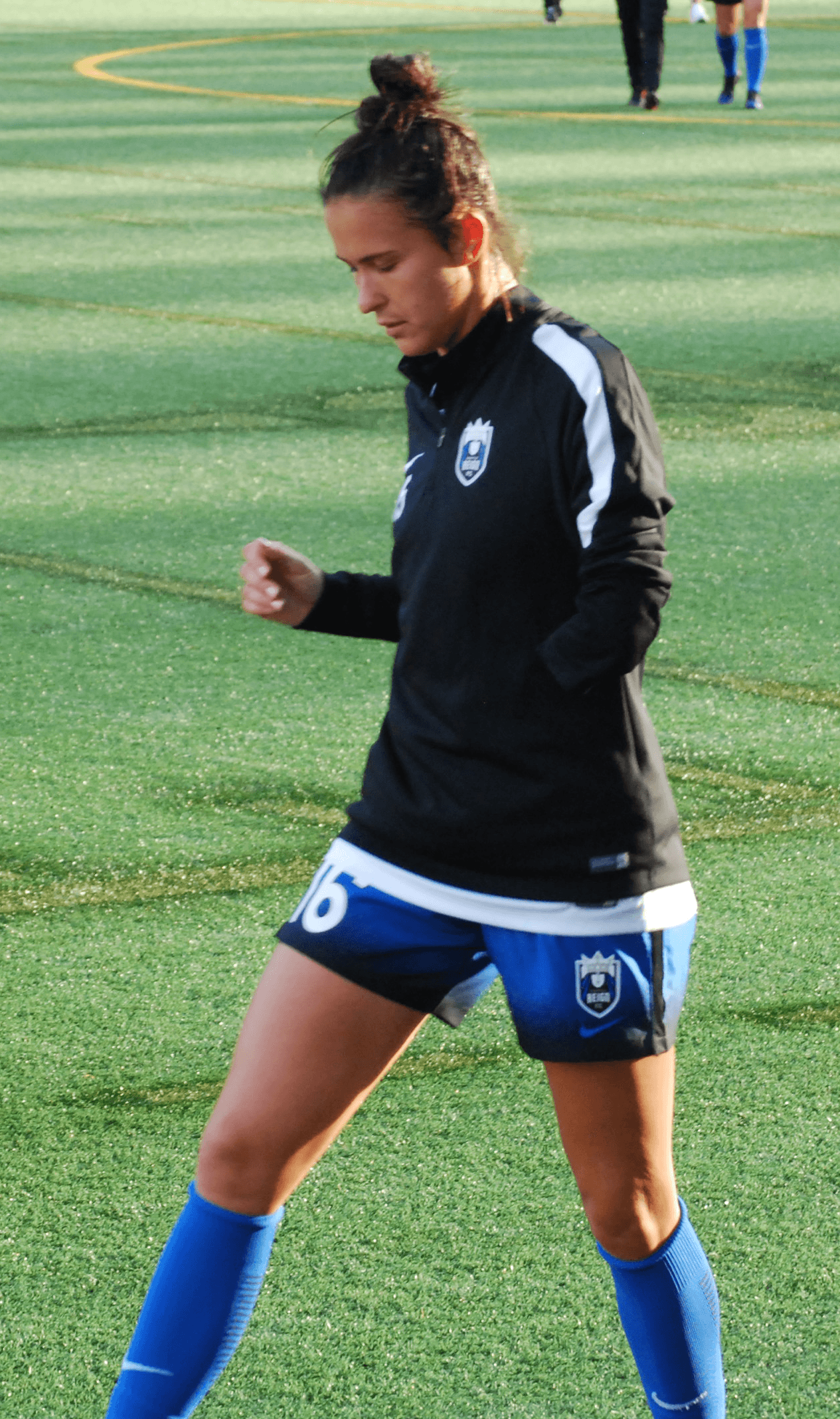 Carson Pickett, Seattle Reign FC vs Houston Dash, April 22, 2017 Memorial Stadium, Seattle, WA